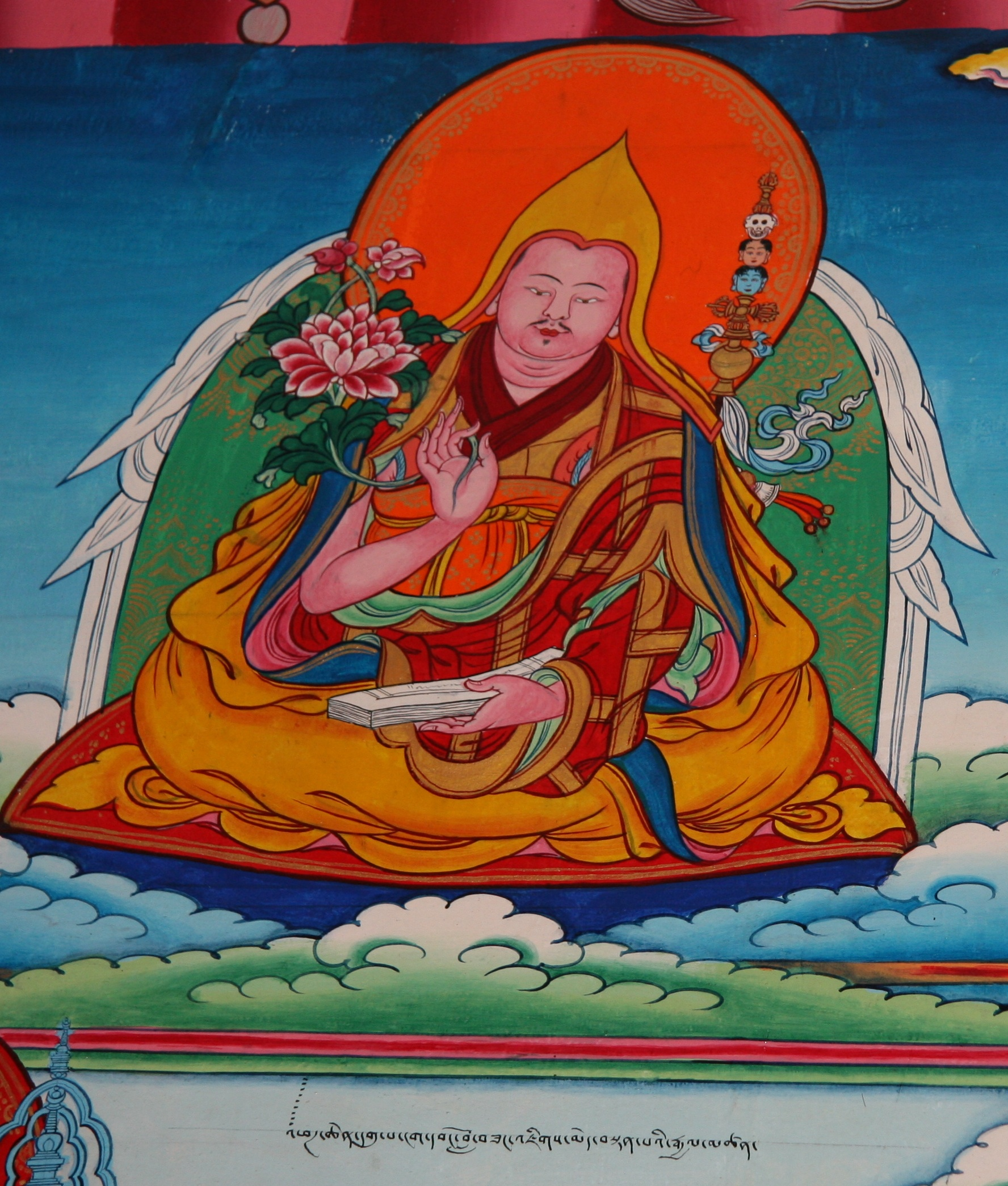 The Ninth Pakpa Lha, Ngawang Lobzang Jigme Tenpai Gyeltsen b.1849 - d.1900